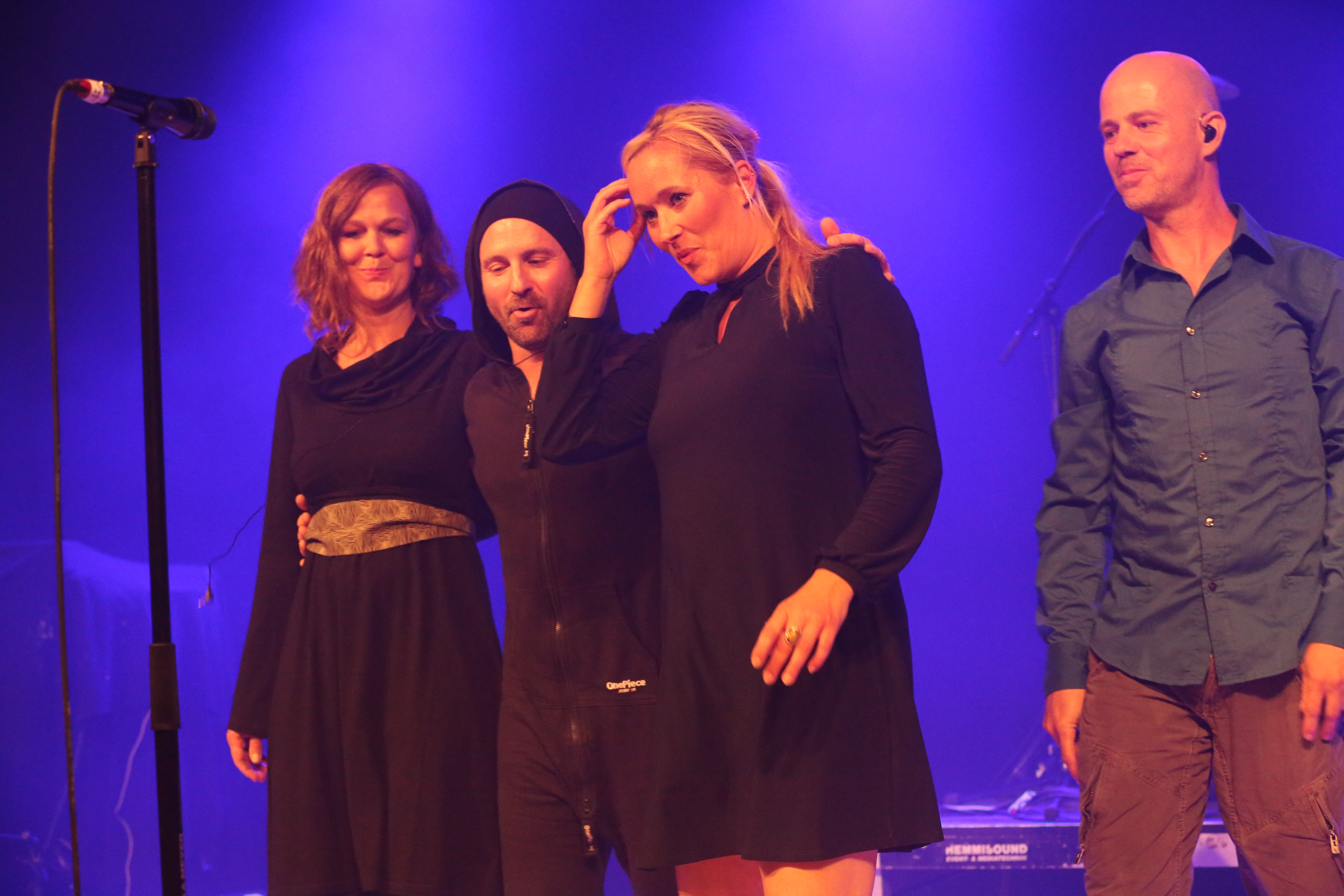 Mila Mar at Eine Nacht im Bergwerk in Flums, CH on September 3rd, 2016